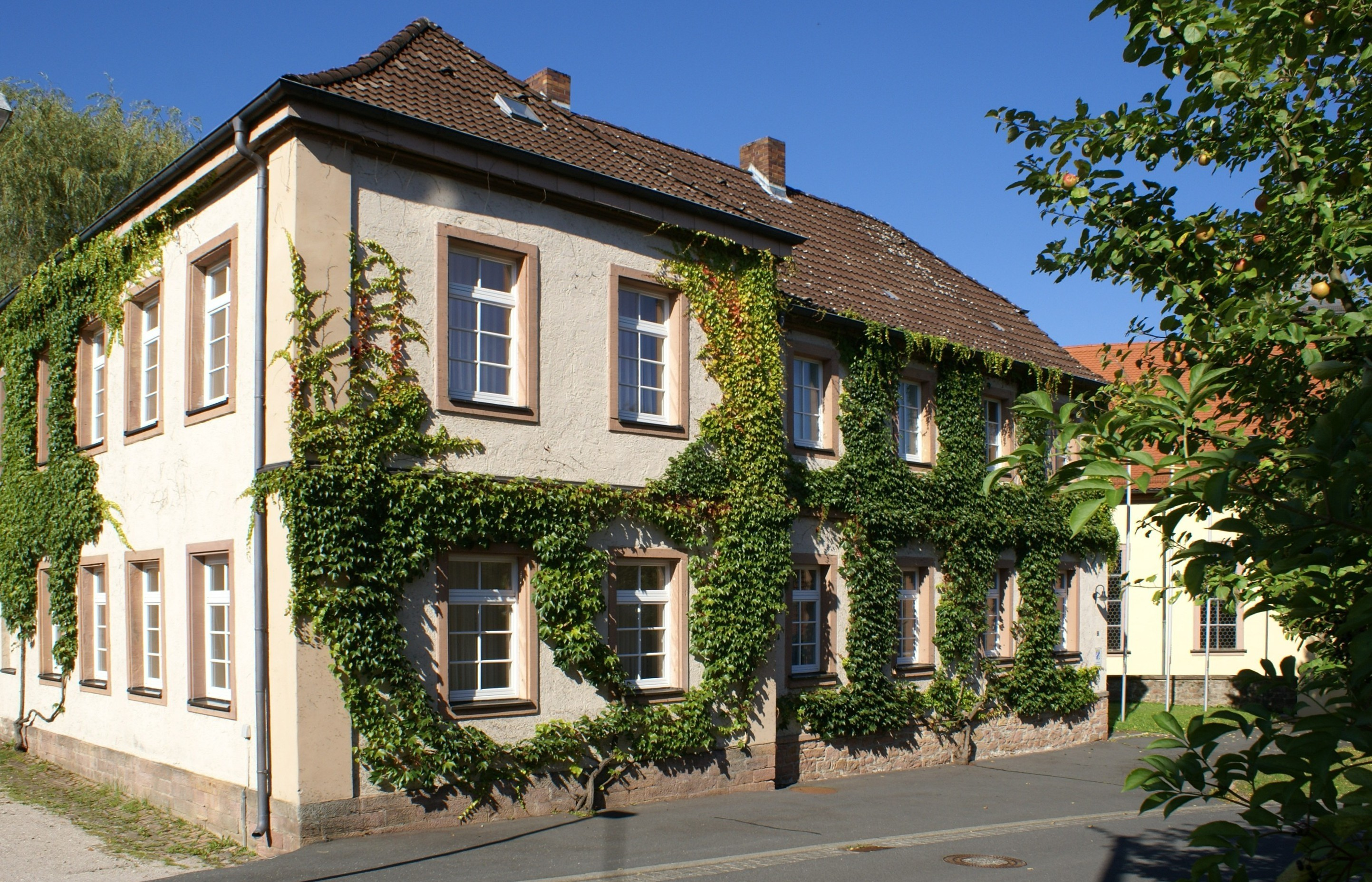 The town hall of Wiesen; Wiesen now belongs to the administrative district Schöllkrippen